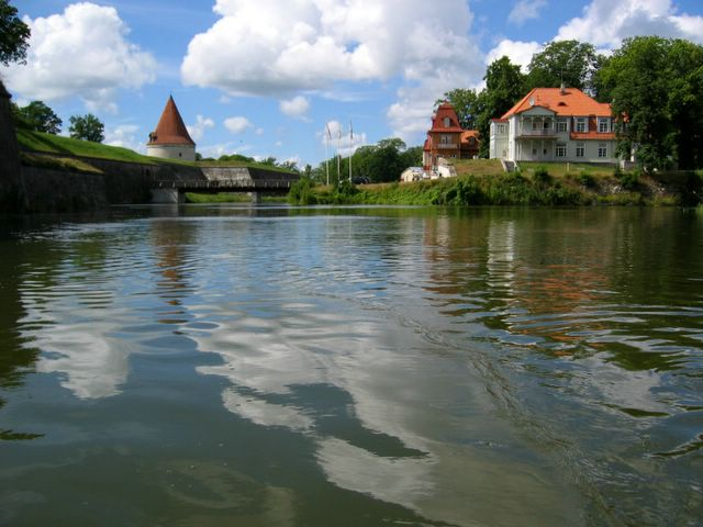 Castle and castle park in Kuressaare